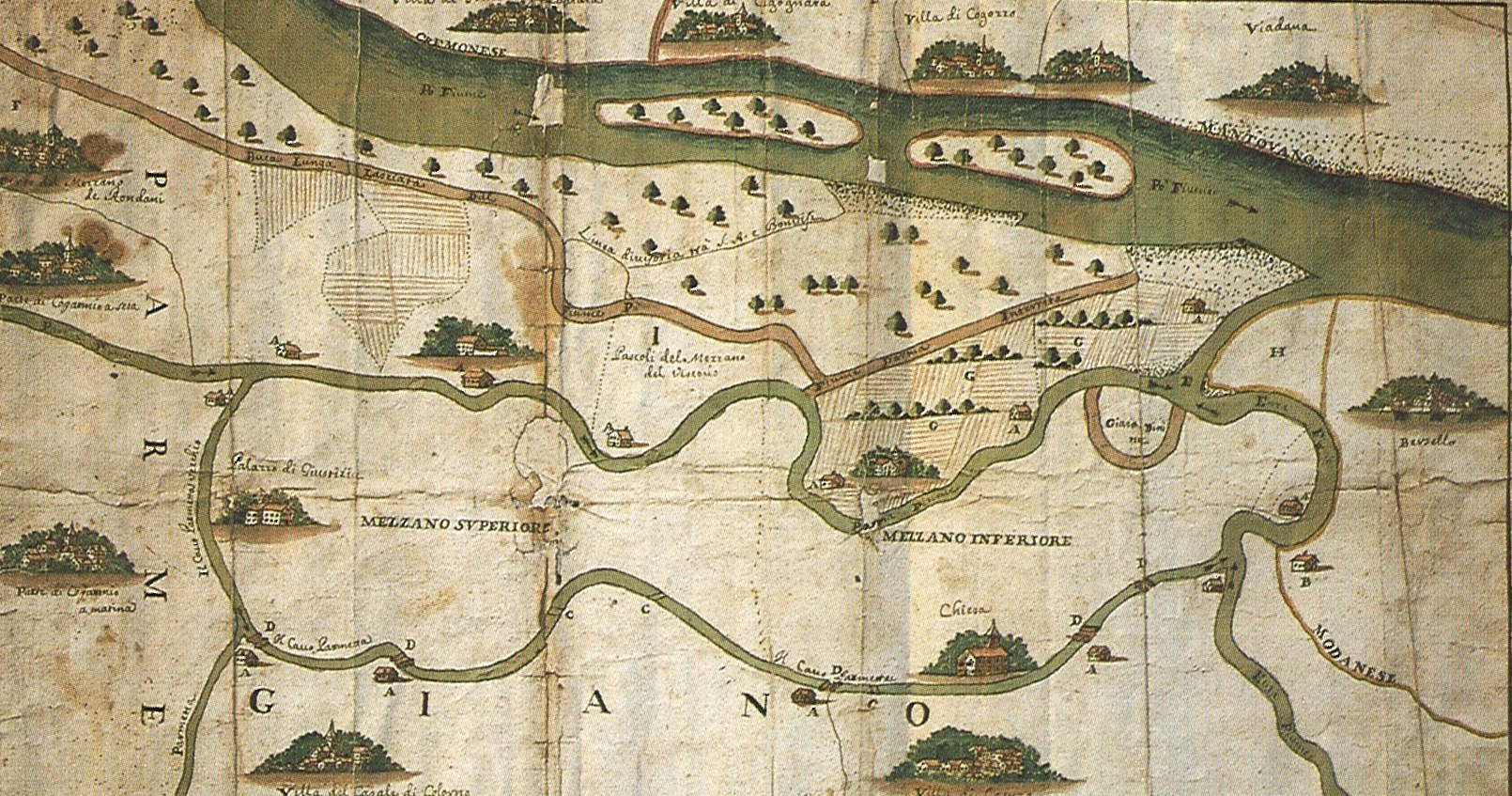 Mezzani in a map of XVII century